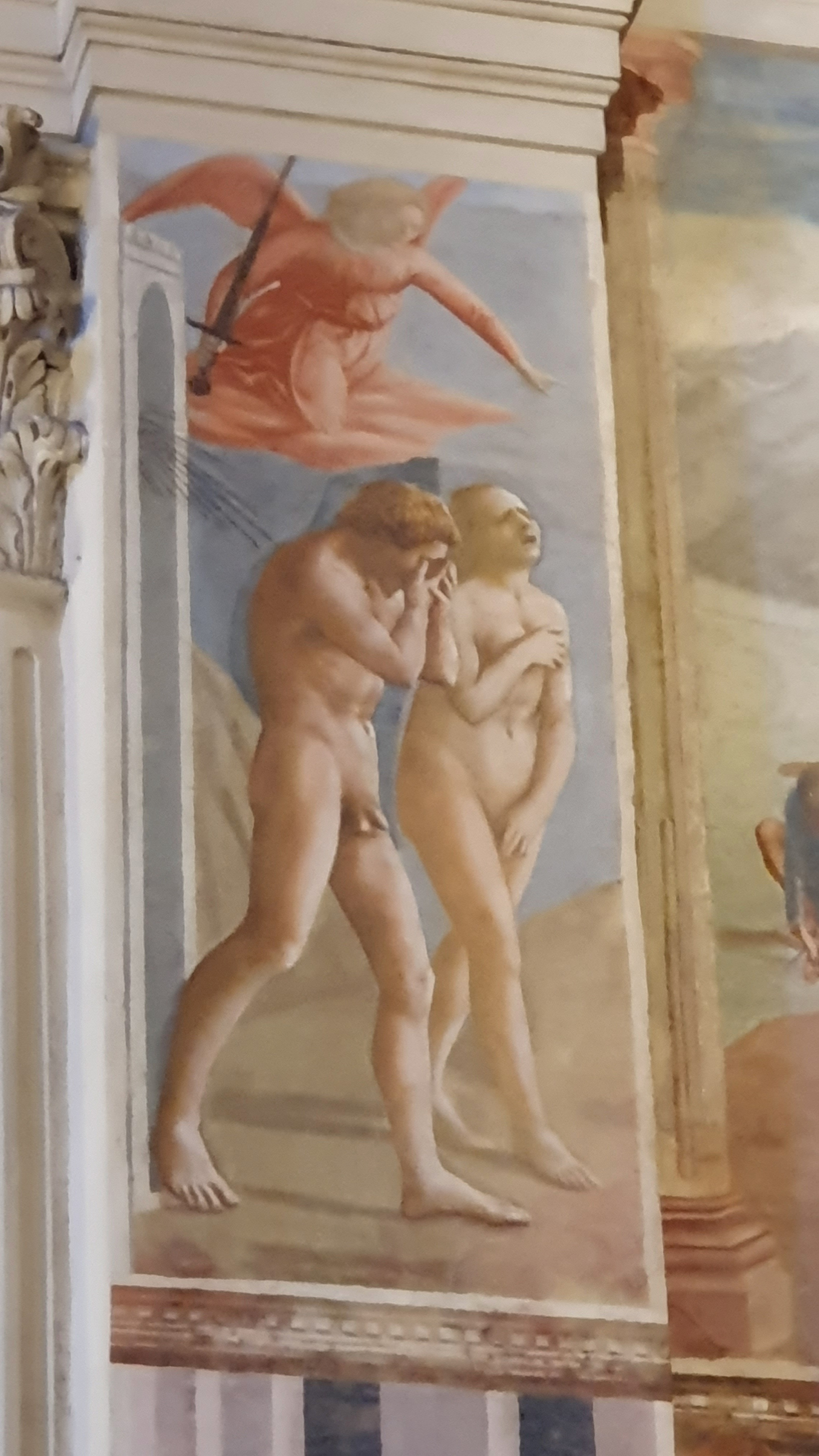 Expulsion from the Garden of Eden (Masaccio)